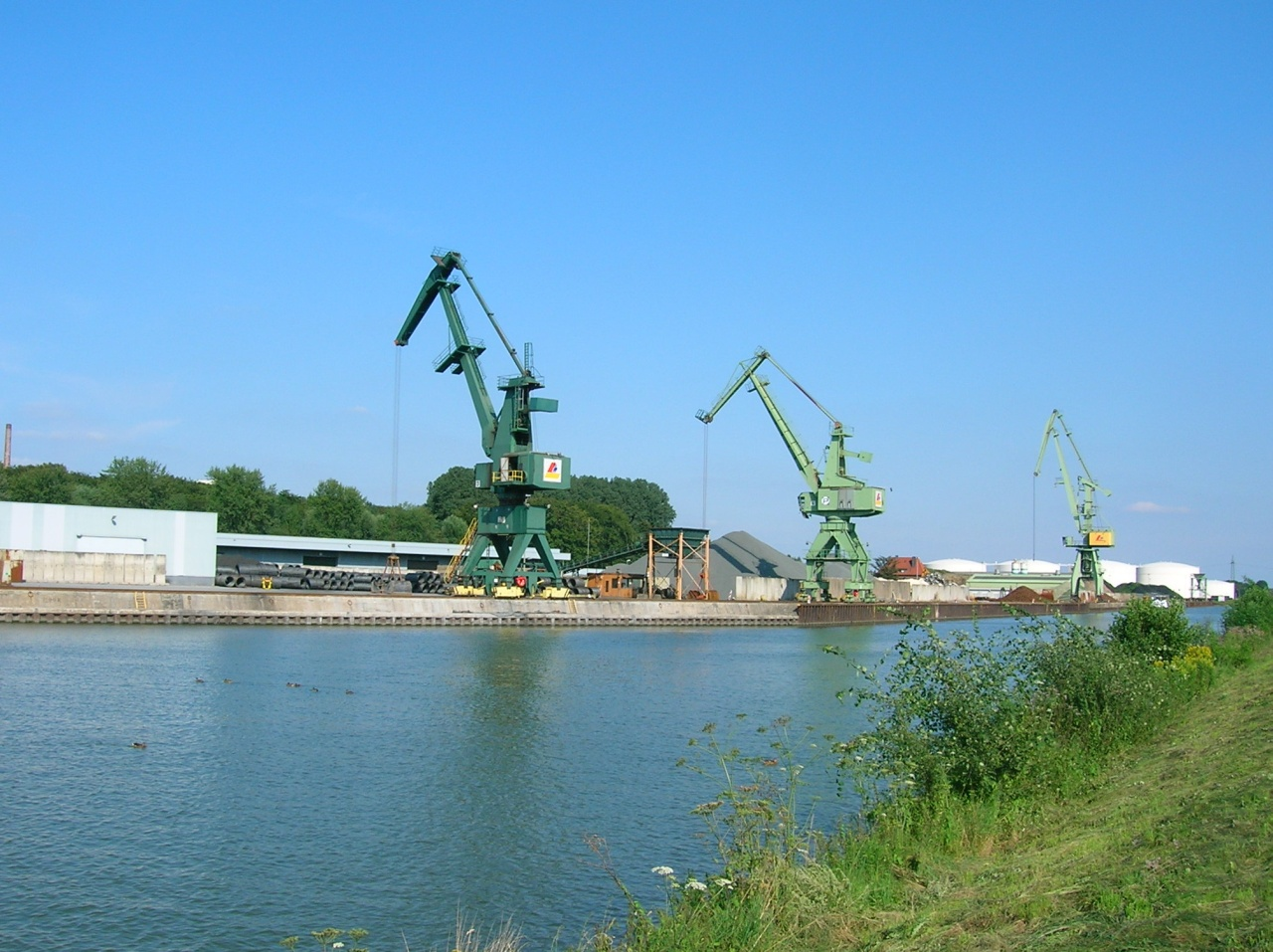 Stadthafen Lünen/NRW/Germany - canal port of german Town Lünen/NRW/Germany